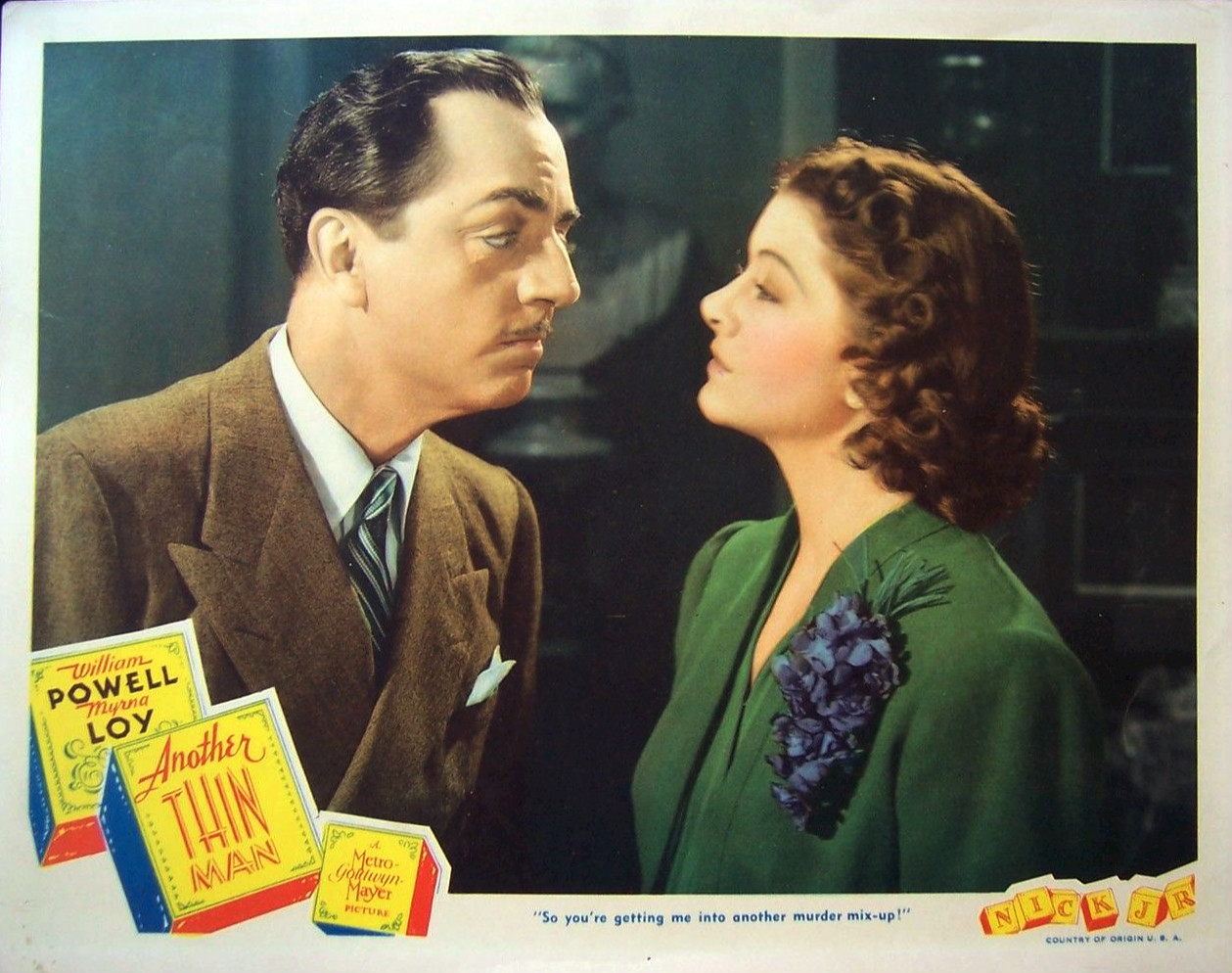 Lobby card from the American film Another Thin Man (1939) with Myrna Loy and William Powell.